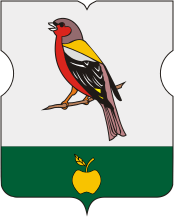 Zyablikovo (municipality in Moscow), coat of arms